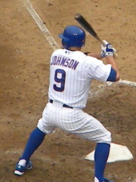 Reed Johnson